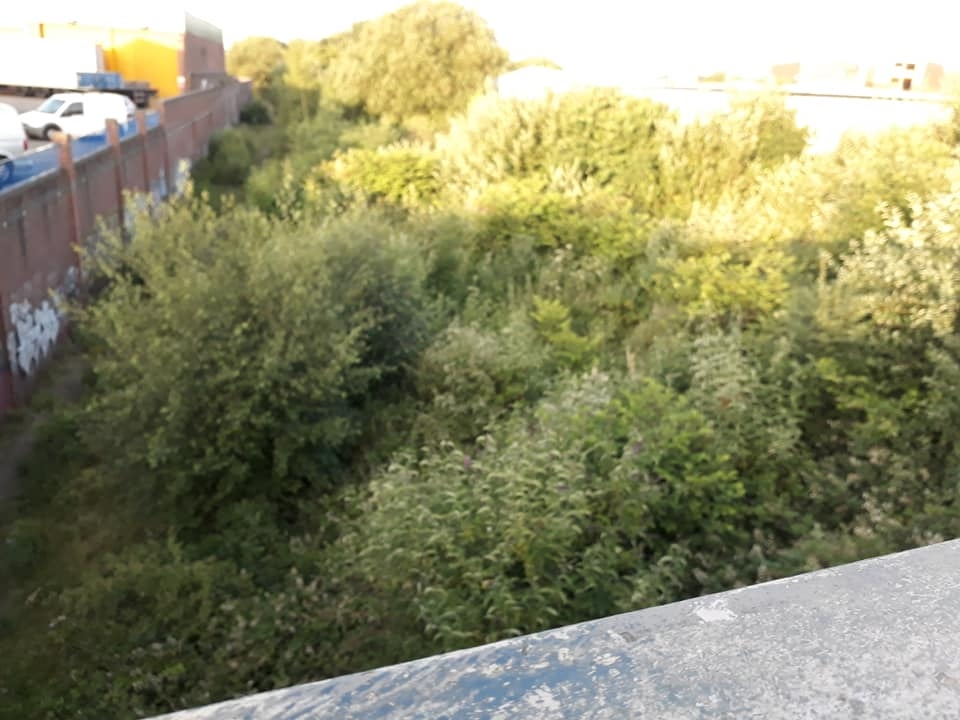 My own.